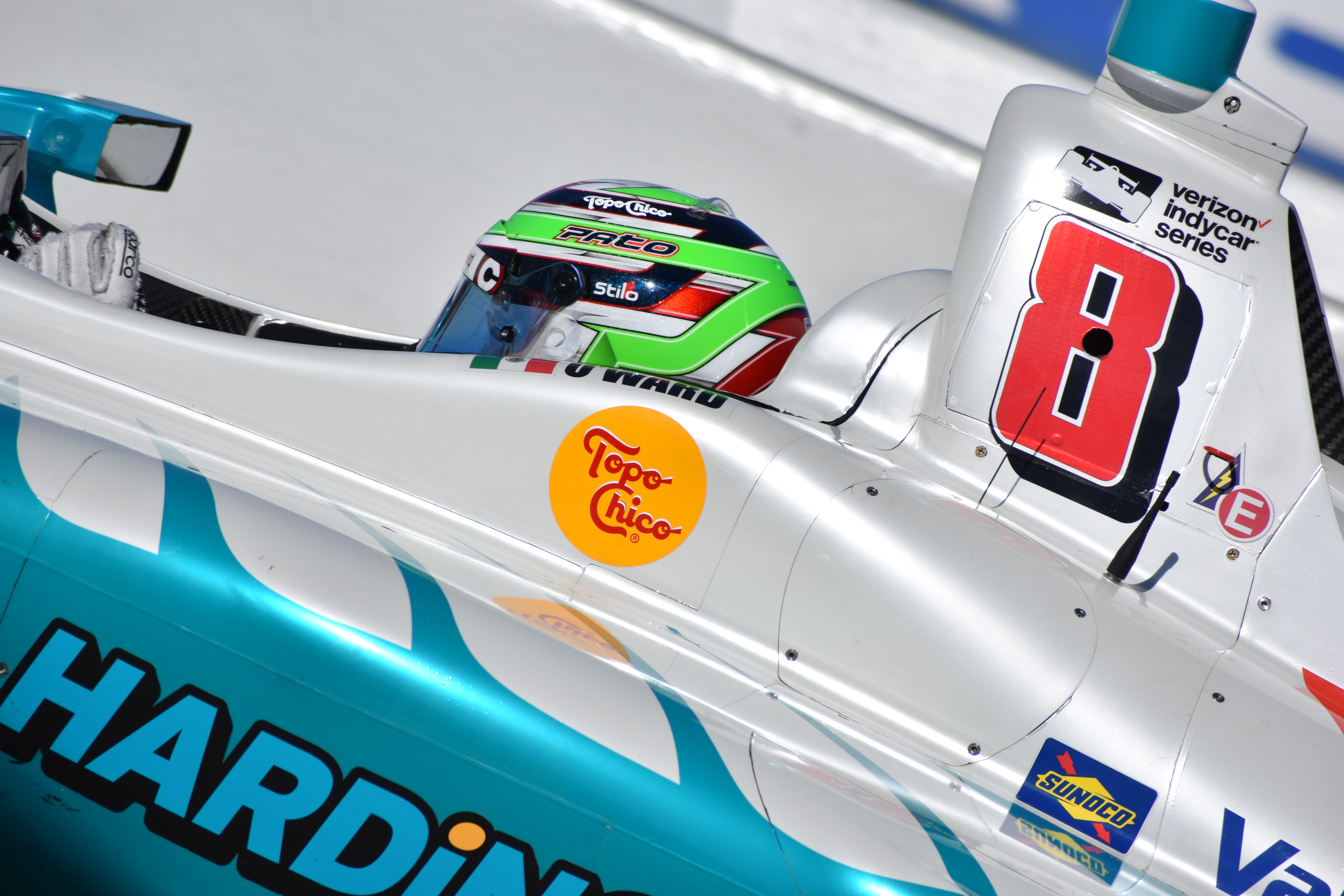 Pato O'Ward during qualifying at Sonoma Raceway